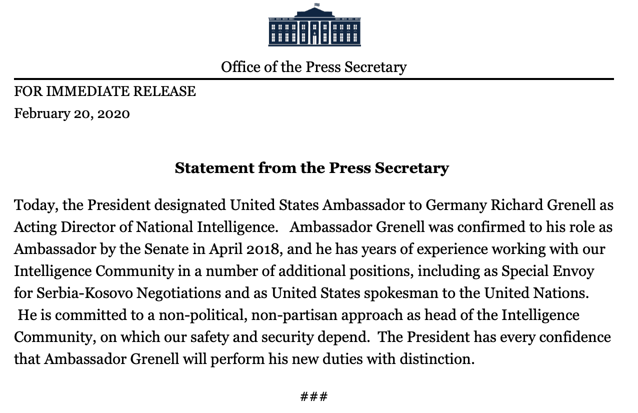 Appointment of Richard Grenell as Director of National Intelligence